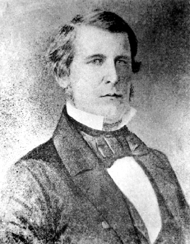 Chapman, A. W. (Alvan Wentworth), 1809-1899--Portrait